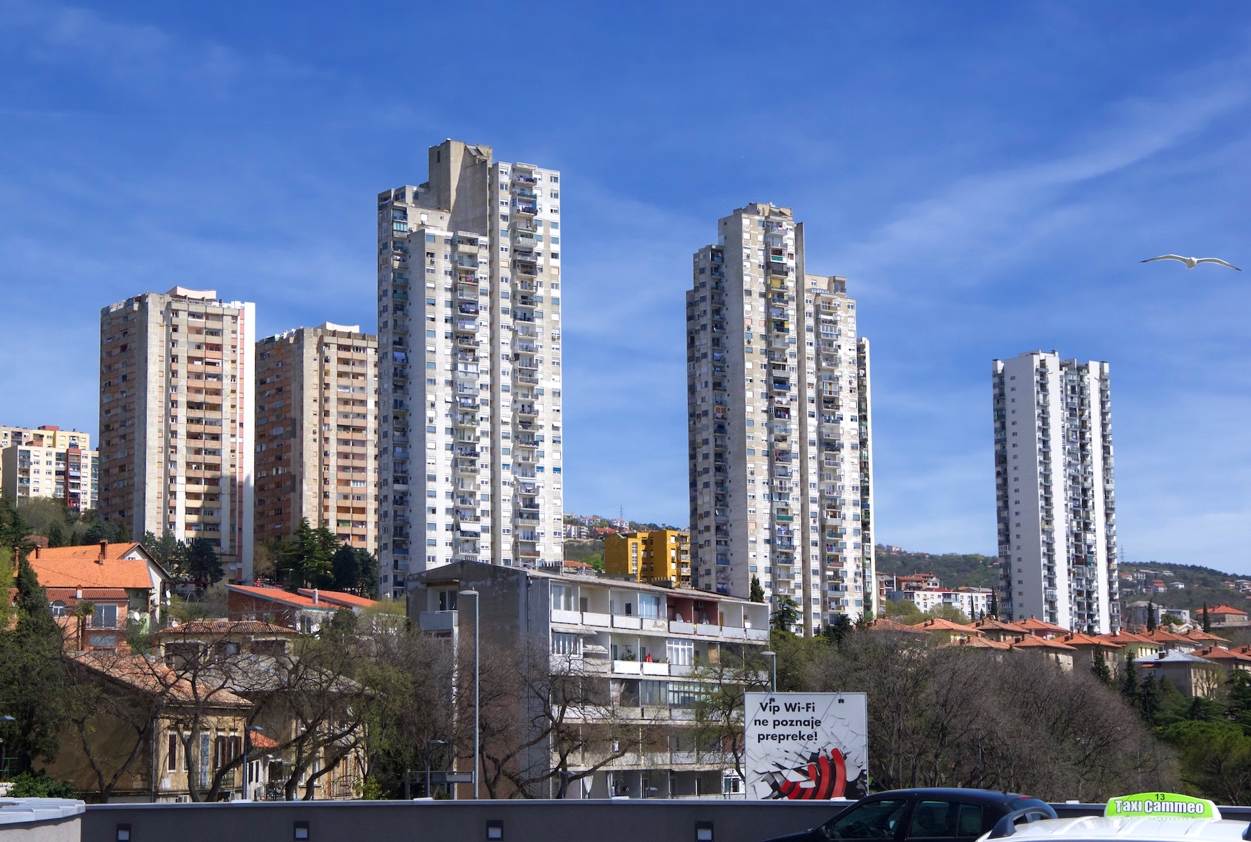 Najviši stambeni neboderi u Hrvatskoj